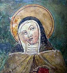 Fresco bl. Philippa Mareri, the thirteenth century, Borgo San Pietro